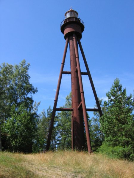 Ruhnu lighthouse.